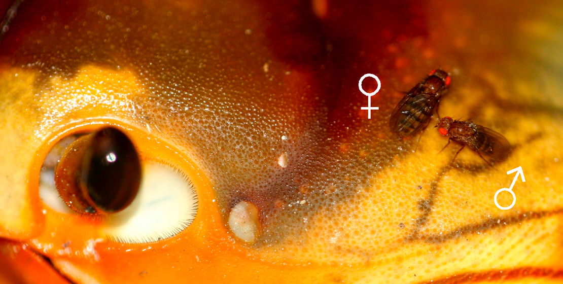 Male fly [Drosophila endobranchiae] courting a female fly under the watchful eye of their host (a yellow morph black crab [Gecarcinus ruricola]).